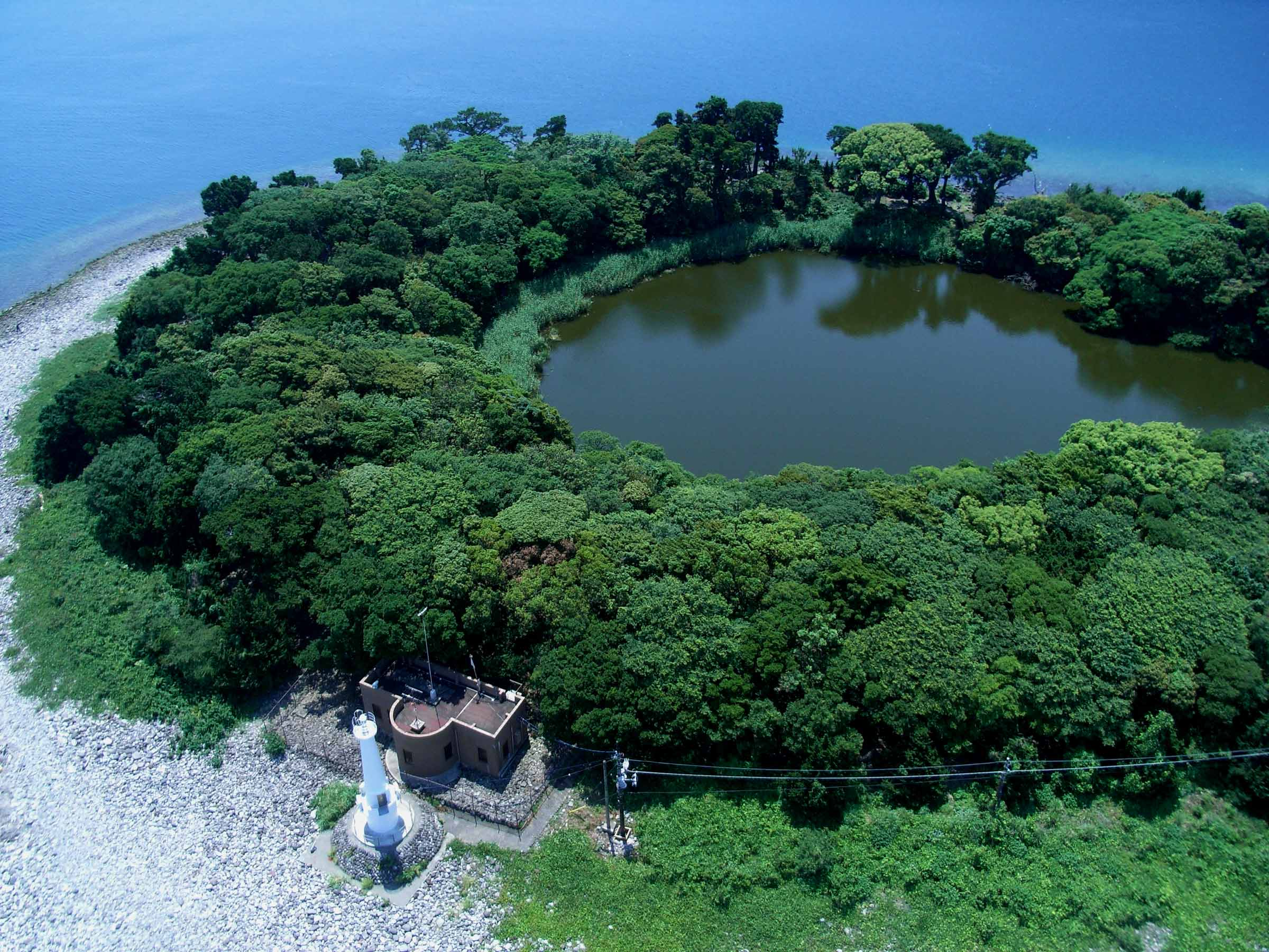 Kami pond, Cape Ose, Nmazu city, Shizuoaka pref., Japan.